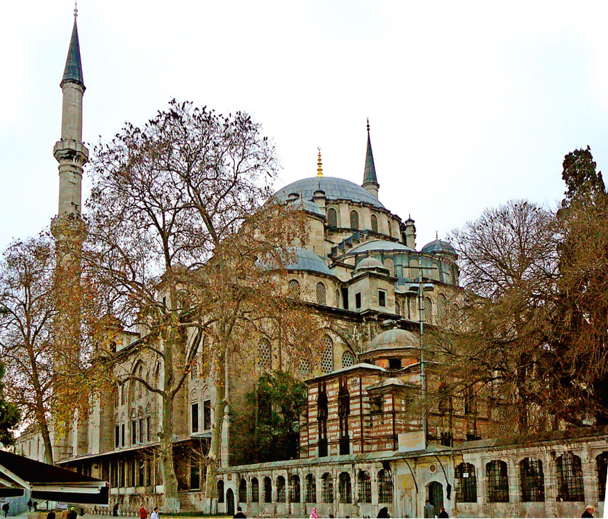 a view from the south-east side of the mosque